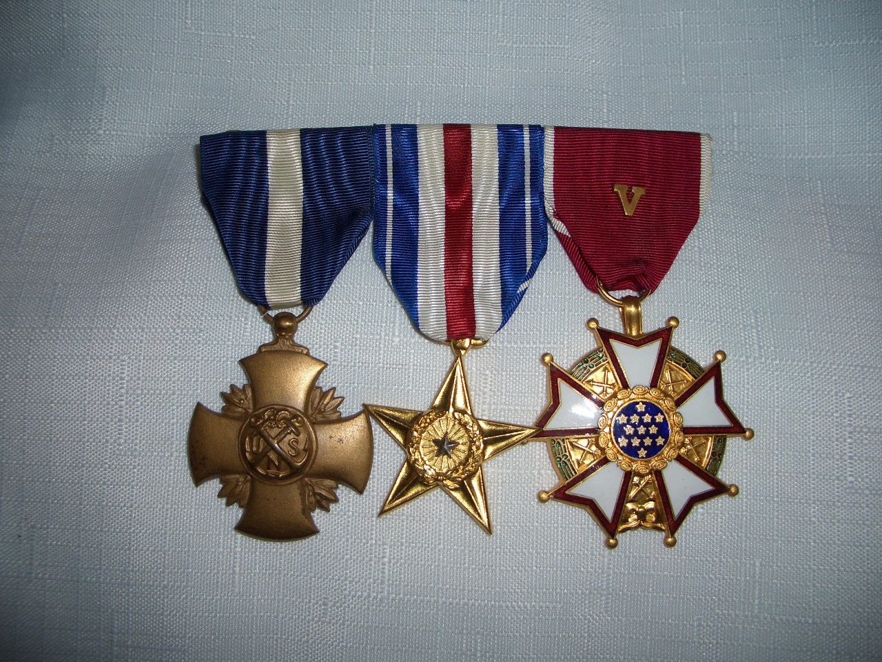 Three of the medals awarded to George Thomas Coker - which has a full list of all his medals, US Navy. See also wikisource:Index:GeorgeTCoker.djvu and wikisource:Author:George Thomas Coker. The medals shown are (left to right): Navy Cross, Silver Star, Legion of Merit with Combat V.